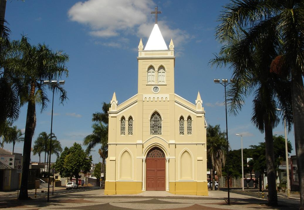 Church Nossa Senhora do Rosário in Uberlandia, Minas Gerais, Brazil.